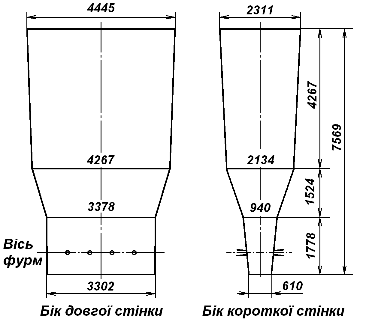 Profile of Rachette's blast furnace.